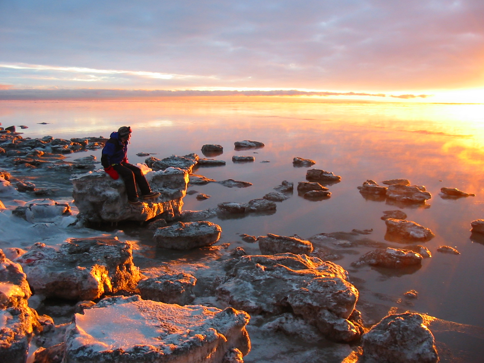 The coastline of Kincaid Park in the middle of winter. Anchorage, Alaska.